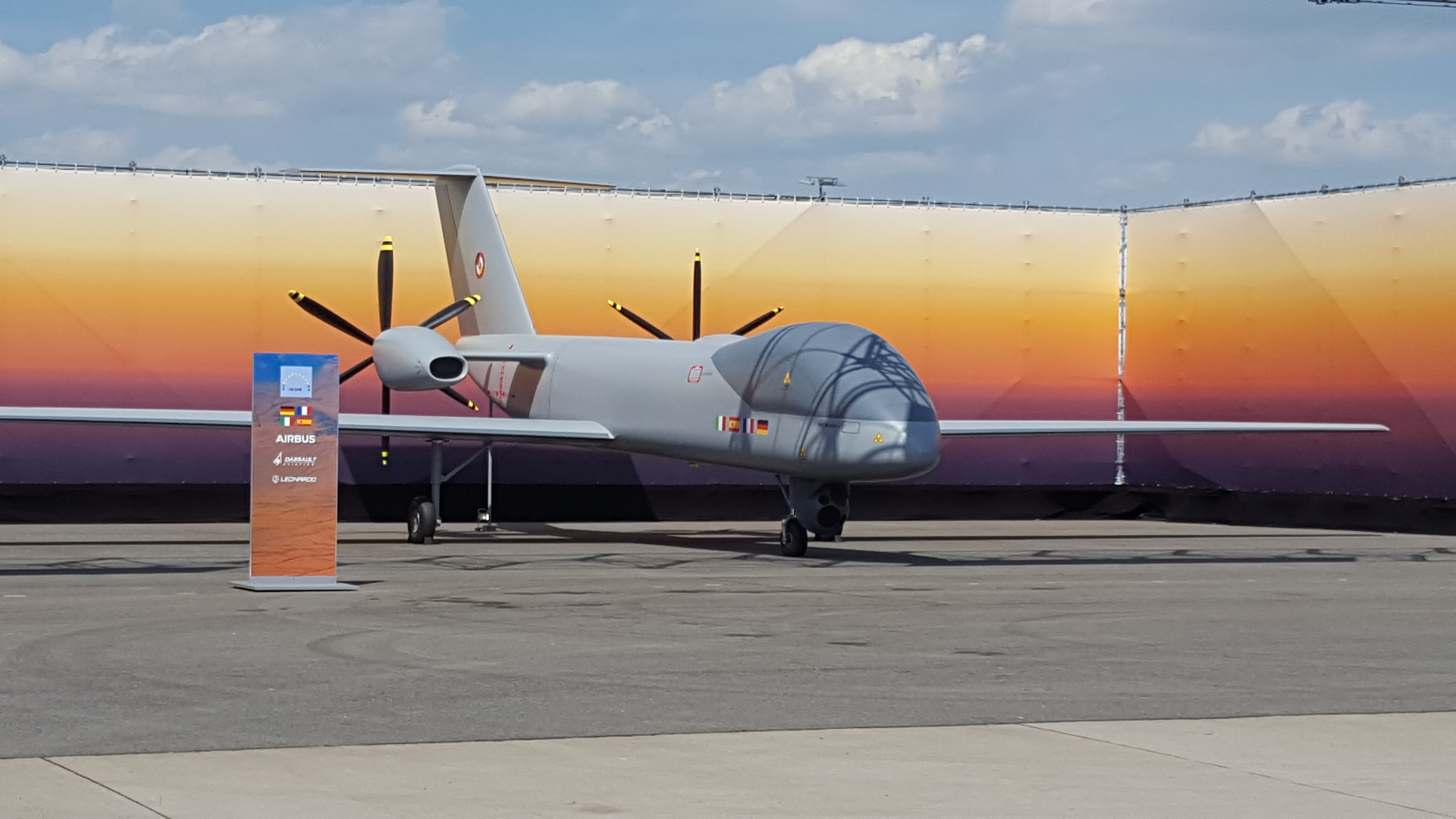 European MALE RPAS Mock-up at ILA 2018